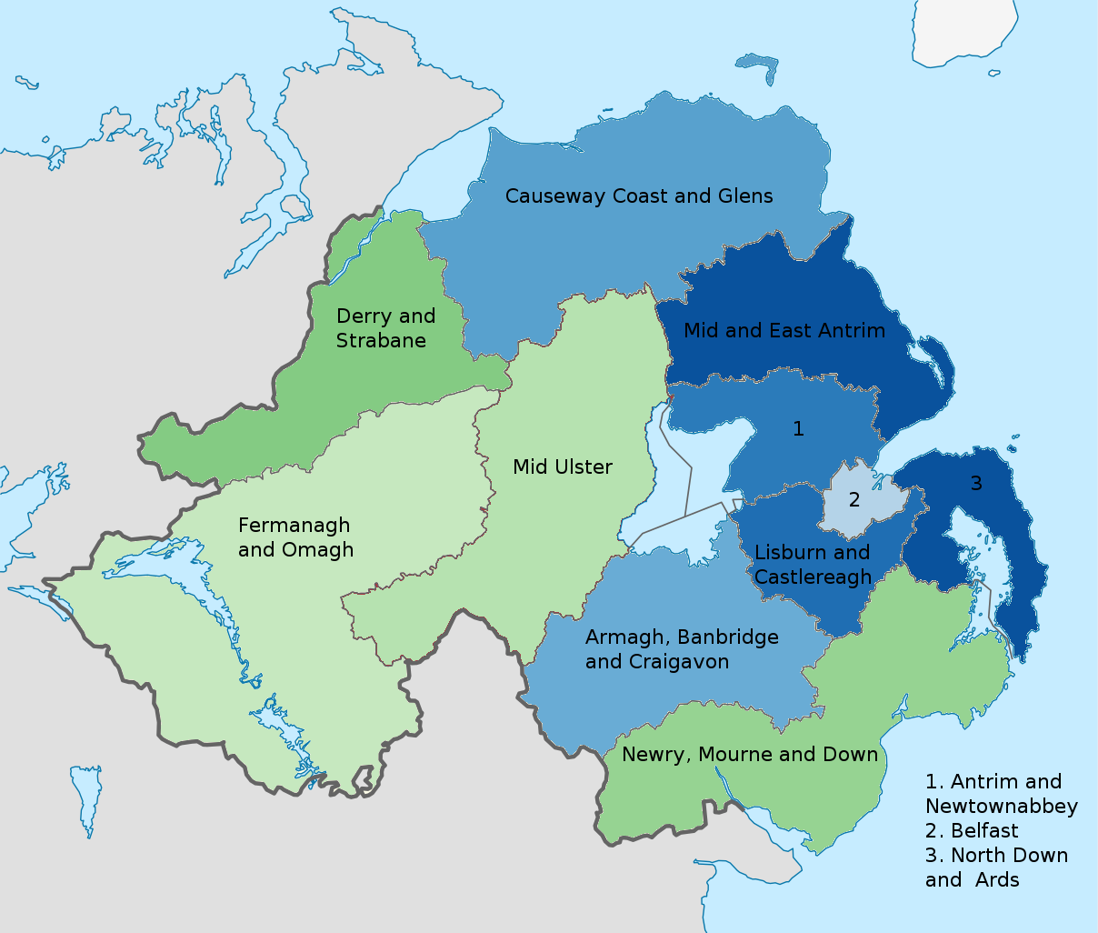 A map of Northern Ireland districts colour coded according to the difference between the percentage of people stating they were British and the percentage of people stating they were Irish in the 2011 census. Legend: 70% to 75% more Irish than British 65% to 70% more Irish than British 60% to 65% more Irish than British 55% to 60% more Irish than British 50% to 55% more Irish than British 45% to 50% more Irish than British 40% to 45% more Irish than British 35% to 45% more Irish than British 30% to 35% more Irish than British 25% to 30% more Irish than British 20% to 25% more Irish than British 15% to 20% more Irish than British 10% to 15% more Irish than British 5% to 10% more Irish than British 0% to 5% more Irish than British 0% to 5% more British than Irish 5% to 10% more British than Irish 10% to 15% more British than Irish 15% to 20% more British than Irish 20% to 25% more British than Irish 25% to 30% more British than Irish 30% to 35% more British than Irish 35% to 40% more British than Irish 40% to 45% more British than Irish 45% to 50% more British than Irish 50% to 55% more British than Irish 55% to 60% more British than Irish 60% to 65% more British than Irish 65% to 70% more British than Irish 70% to 75% more British than Irish